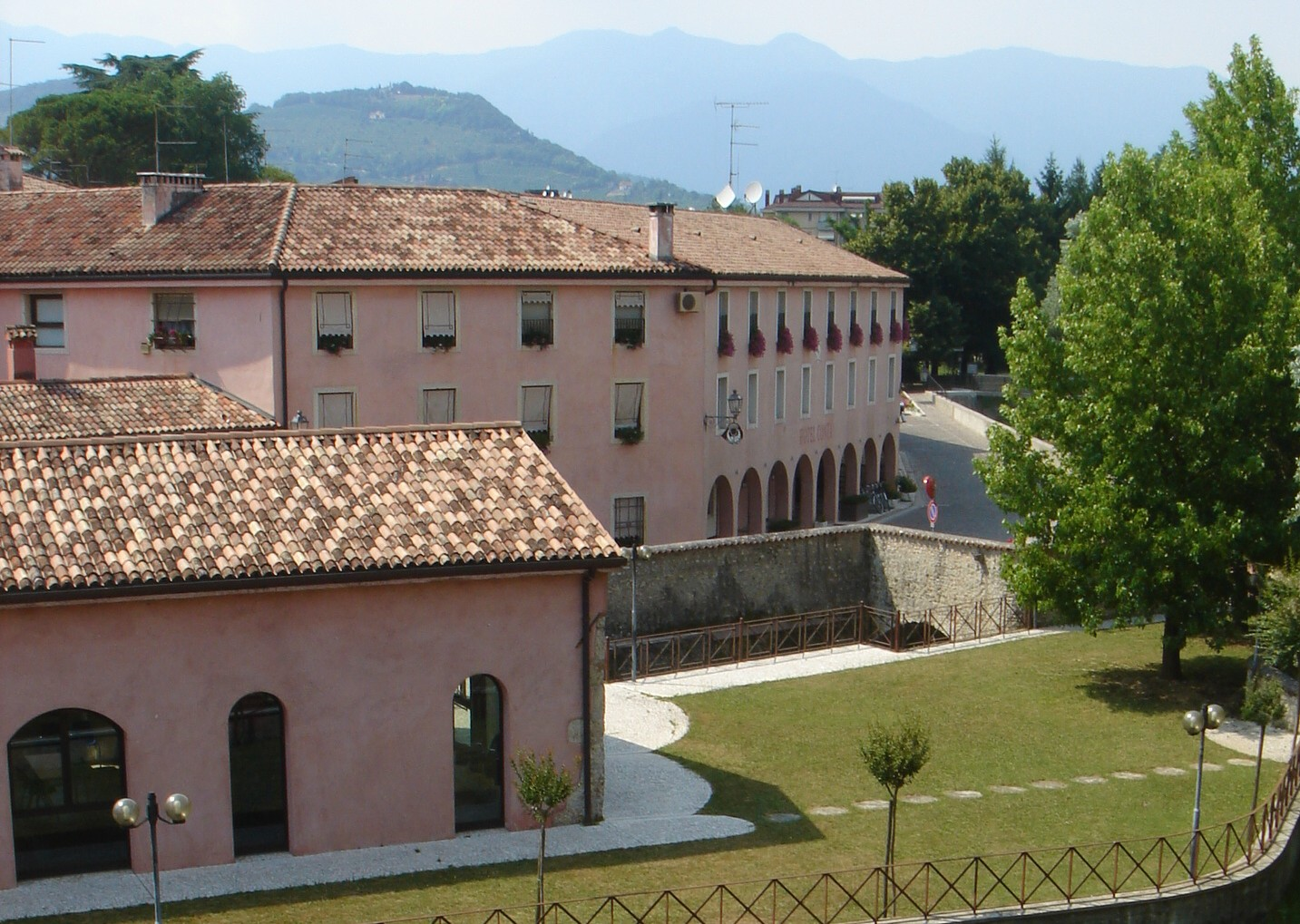 Pieve di Soligo: borgo Stolfi